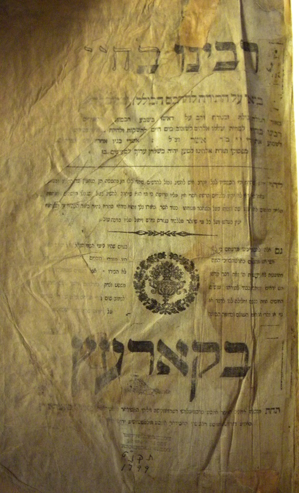 Title page of Asher Evan Hulda Ben Behi: Sefer Rabenu Bahye be'ur Al ha-Torah. 1799. By Bahya ben Asher ben Hlava.